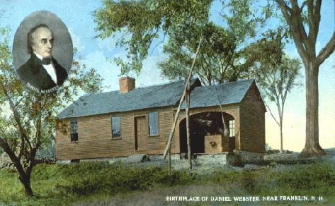 Daniel Webster birthplace, Franklin, New Hampshire